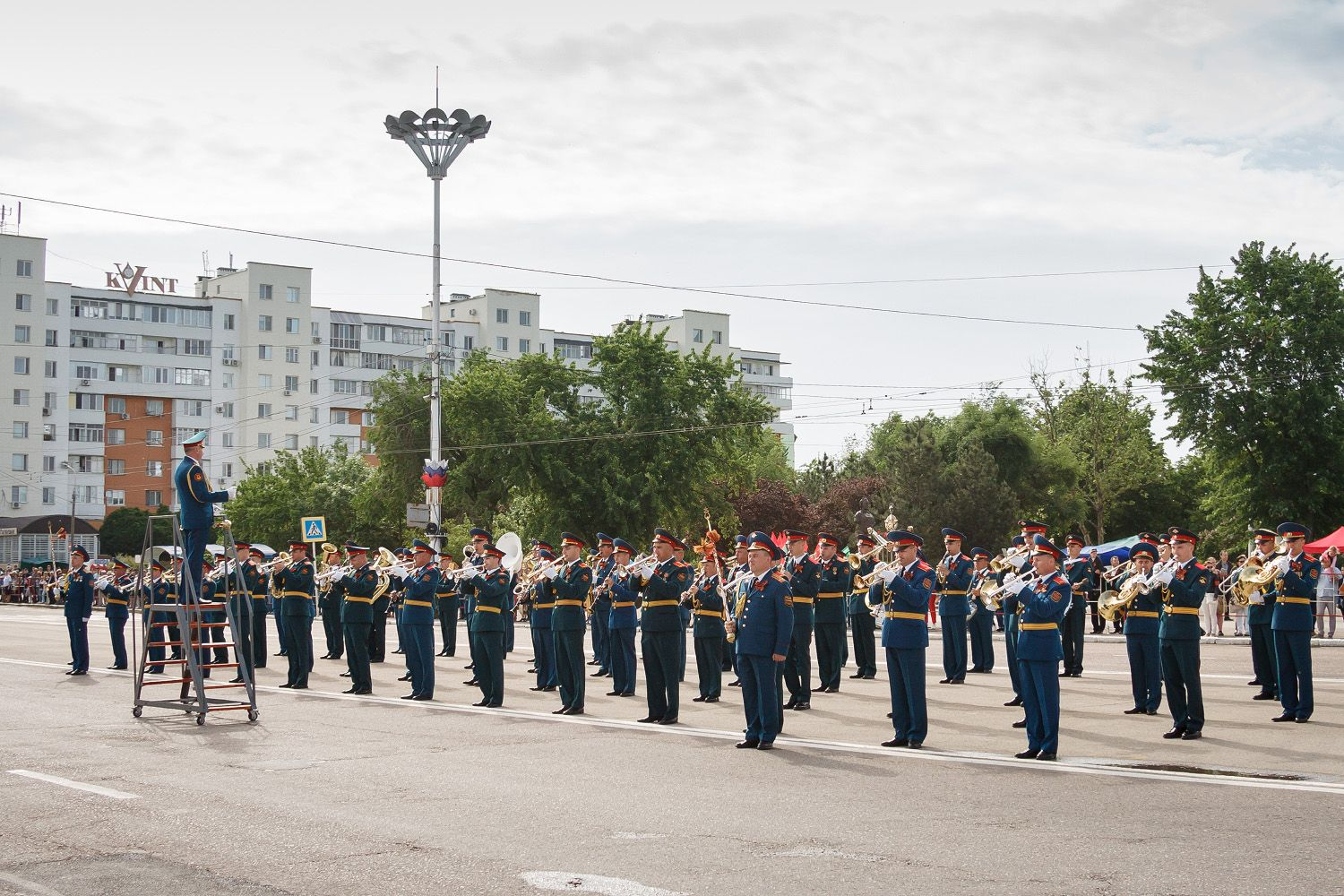 Президент ПМР Вадим Красносельский принял участие в церемонии поднятия Знамени Победы